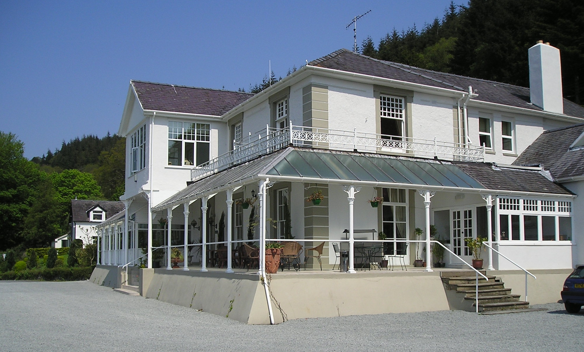 Taken by me Noel Walley